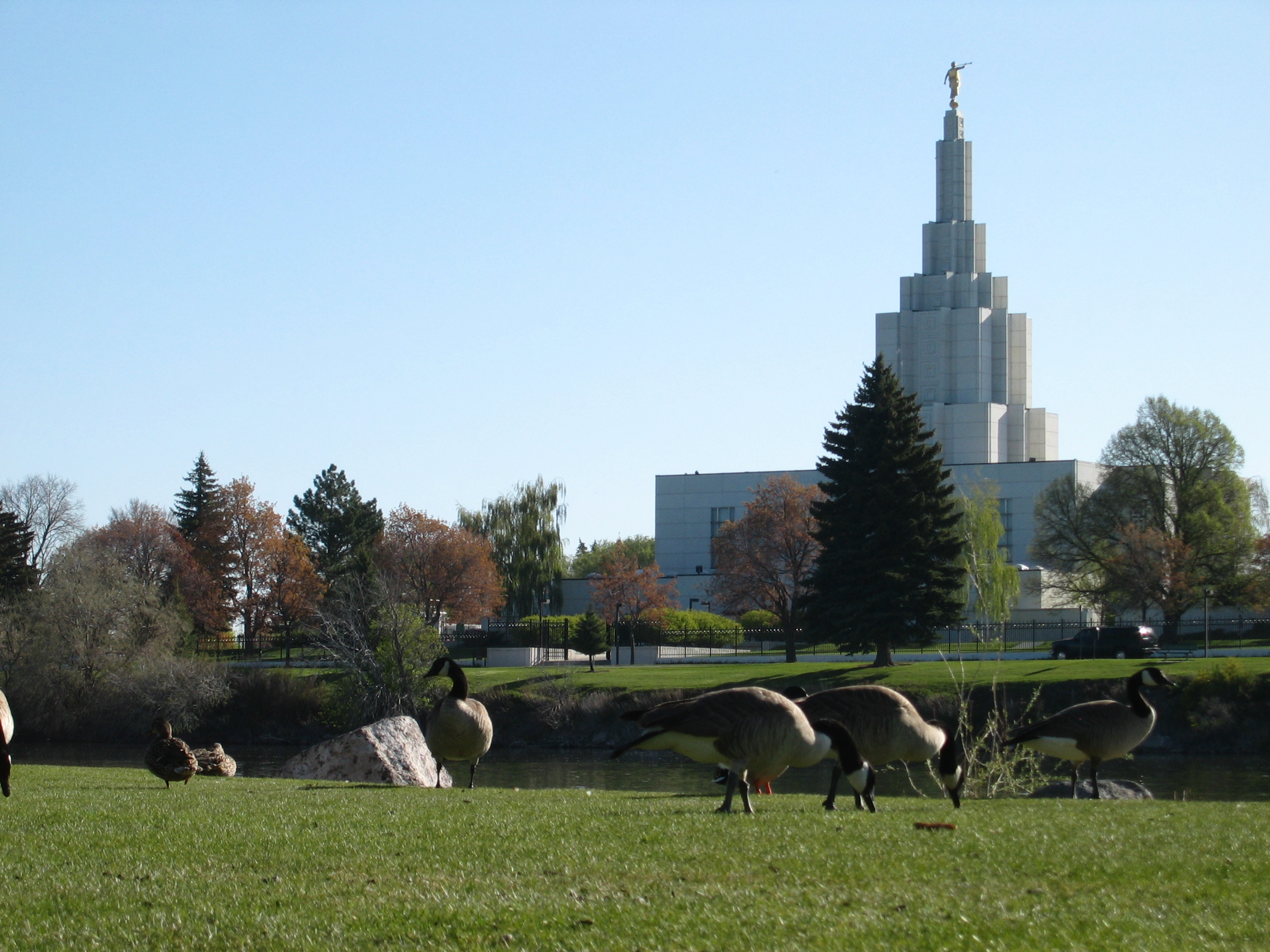 Canadian Geese, the Snake River, and the Idaho Falls Idaho Temple of The Church of Jesus Christ of Latter-day Saints.